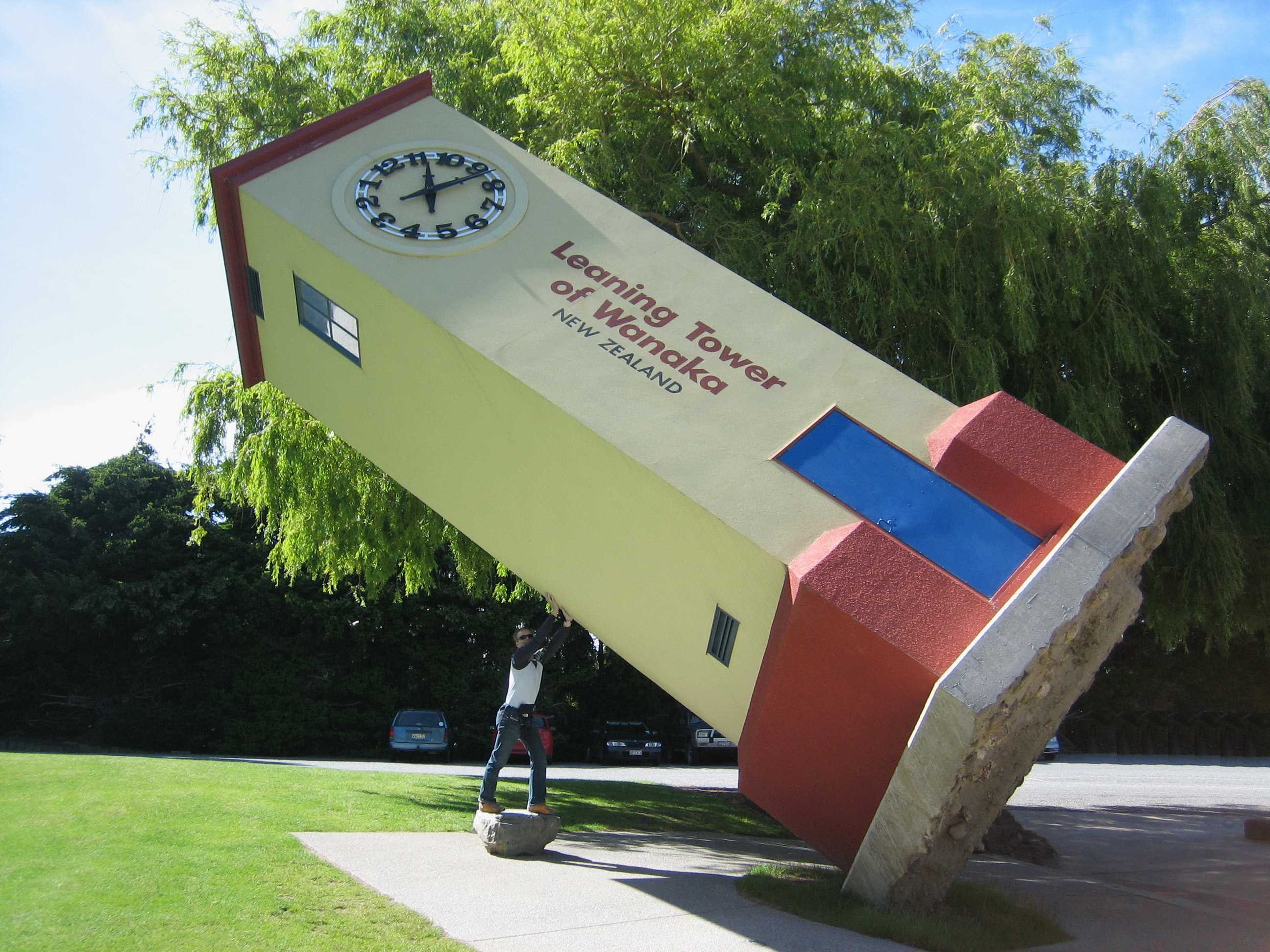 Stability testing from Matthijs at Wanaka leaning tower New Zealand: very powerfull!